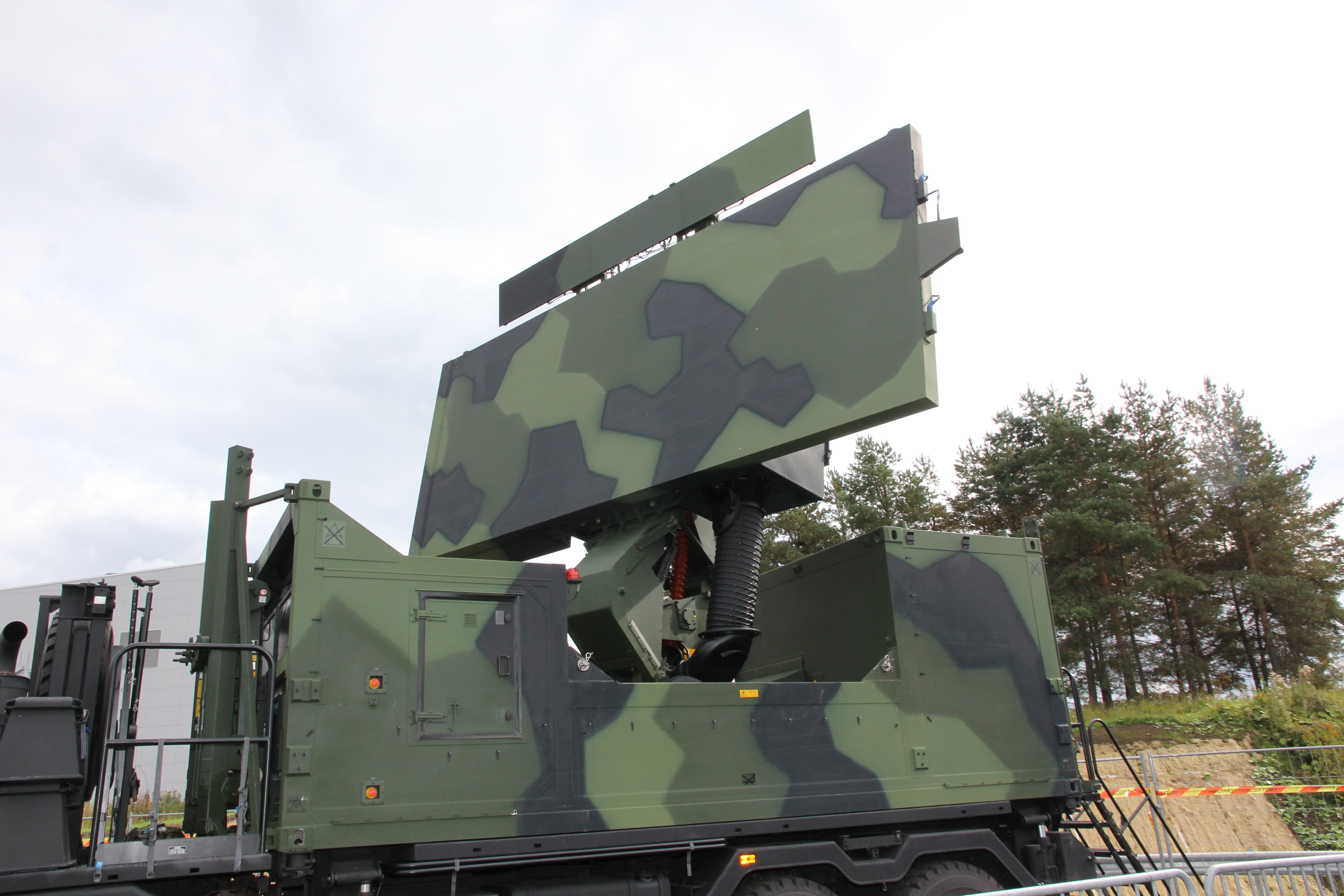 Ground Master 403 (KEVA2010) radar on display at Comprehensive security exhibition 2015 in Tampere.